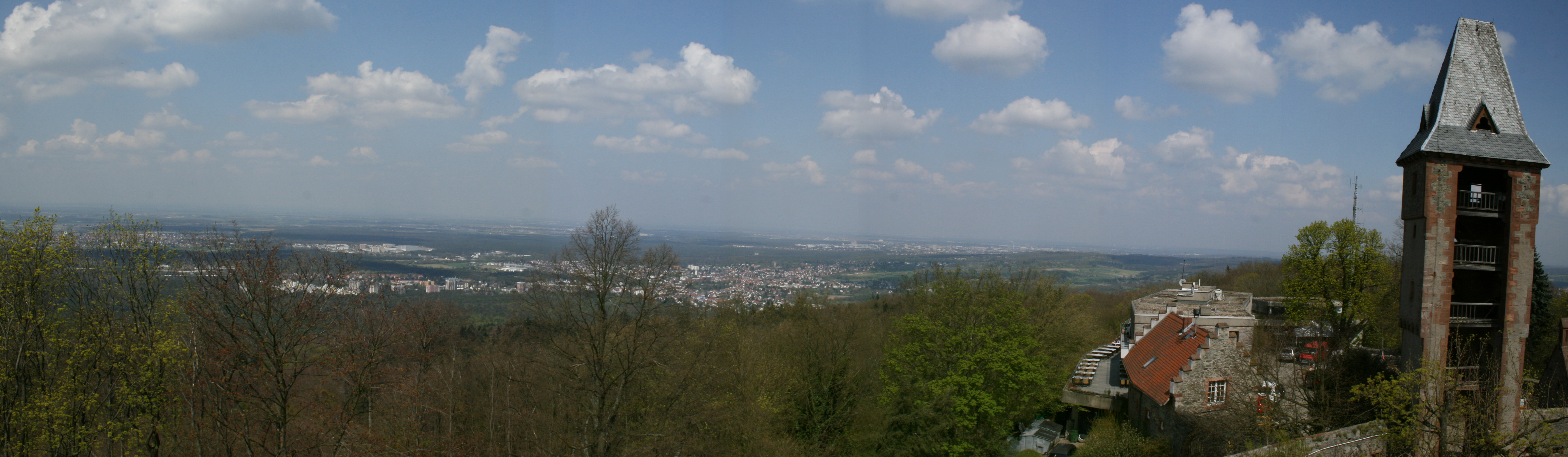 Panorama of the Rhine river plains made from one of castle Frankenstein towers